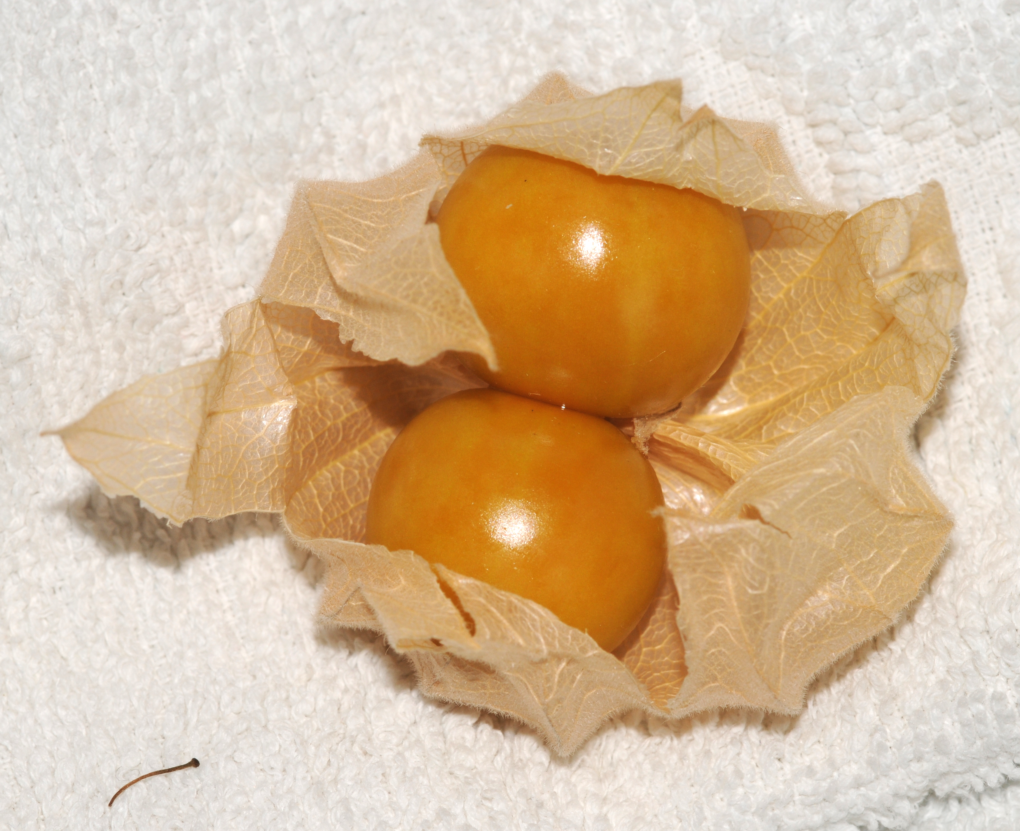 Physalis fruit.